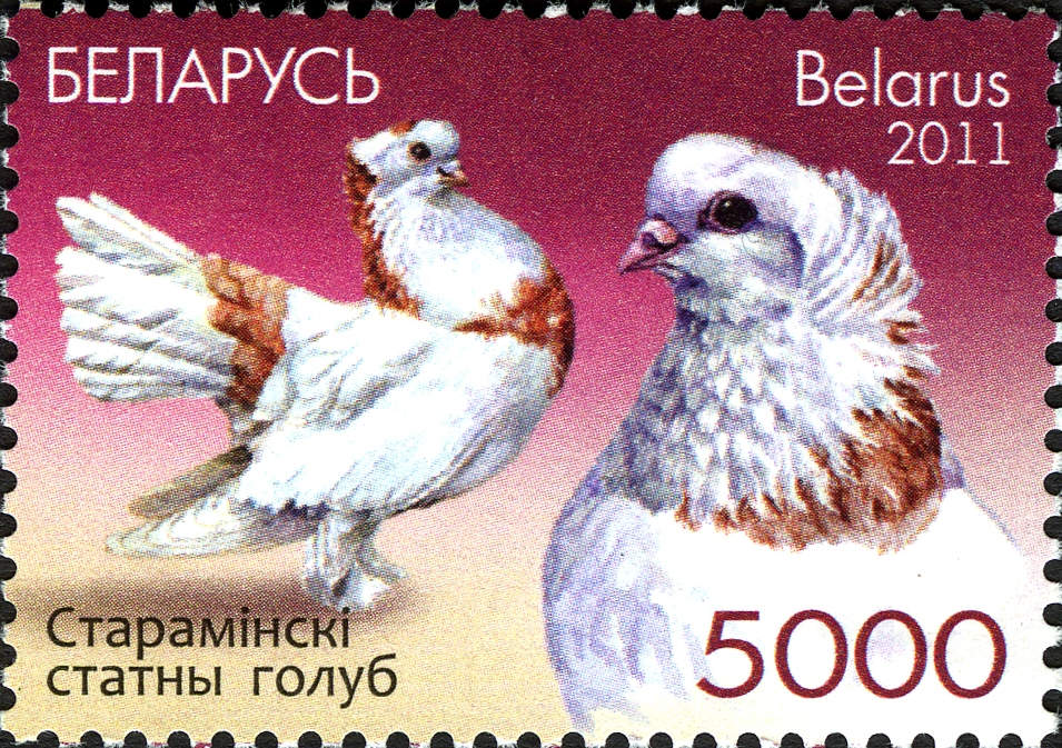 Stamp of Belarus. Old Minsk pigeon